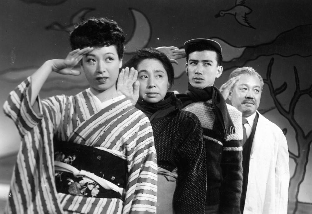 From left to right: Chikage Awashima, Akiko Tamura, Keiji Sada and Eijirō Yanagi in Honjitsu kyūshin (本日休診) directed by Minoru Shibuya - 1952